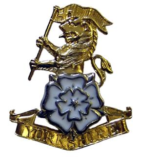 Photo of Parade Dress cap badge of the Yorkshire Regiment